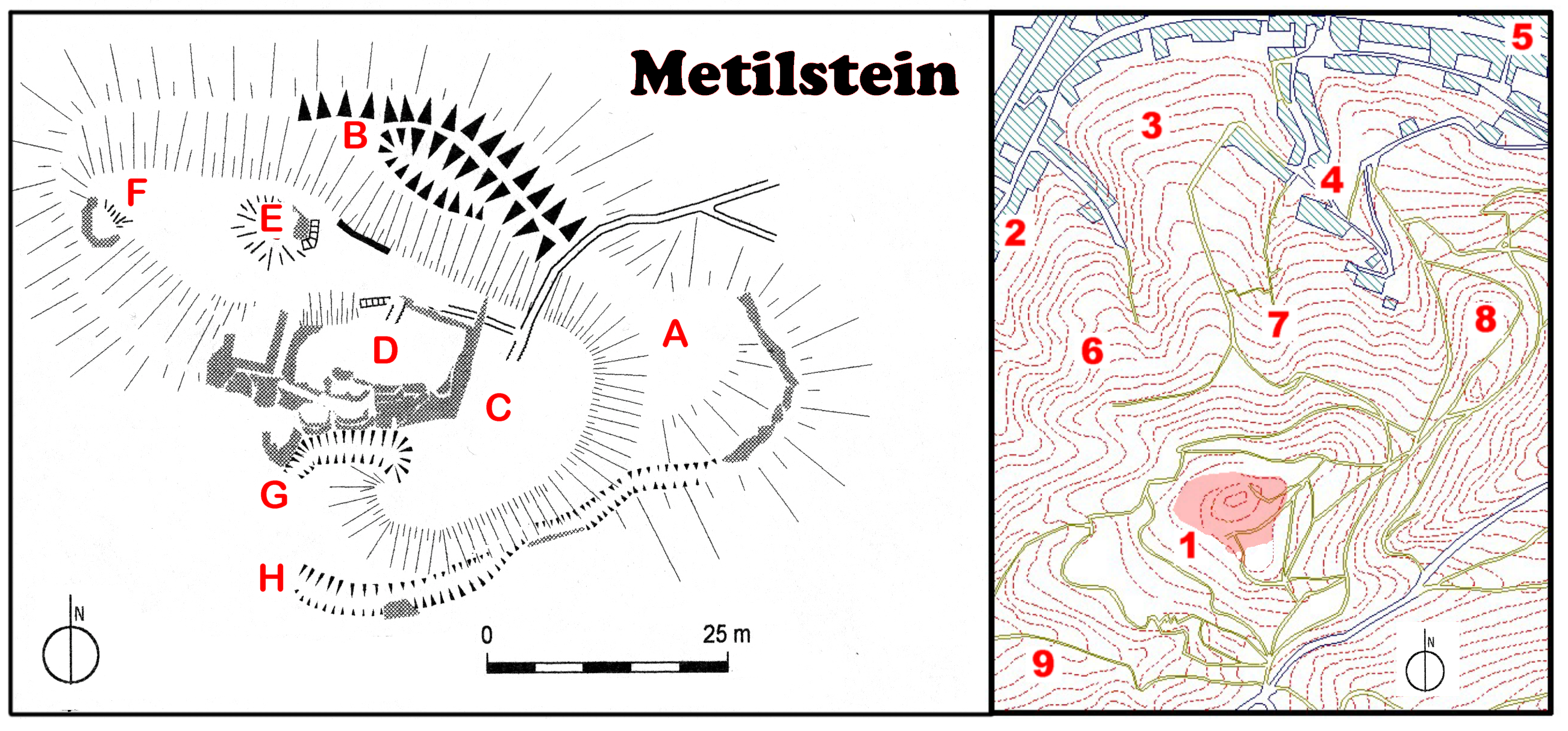 Map of the Metilstein, a former castle in Eisenach.